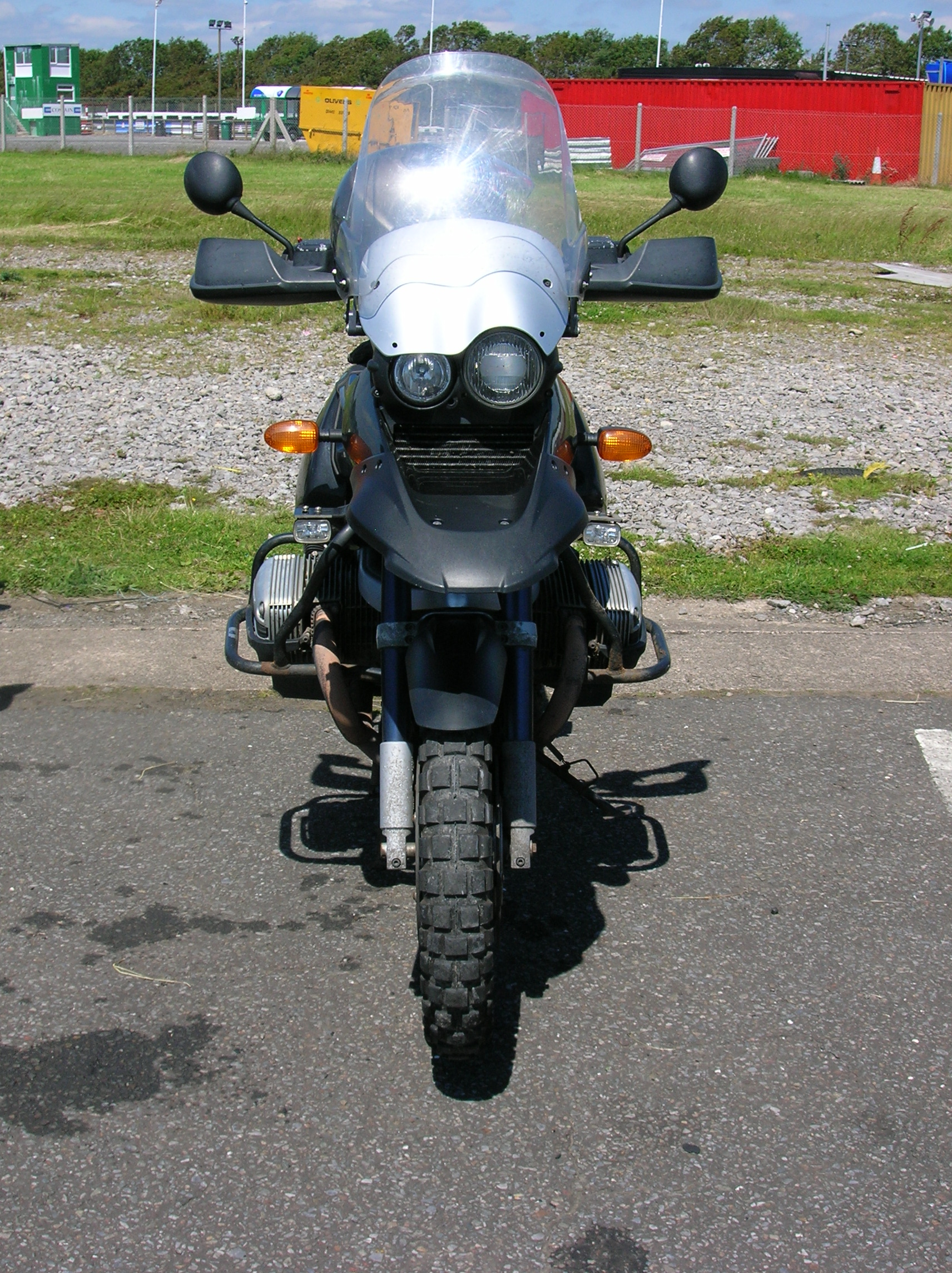 BMW R1150GS motorcycle pictured from the front